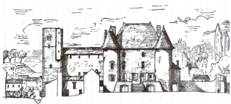 le château de Nemours au XVIIIe siècle après les travaux d’embellissement